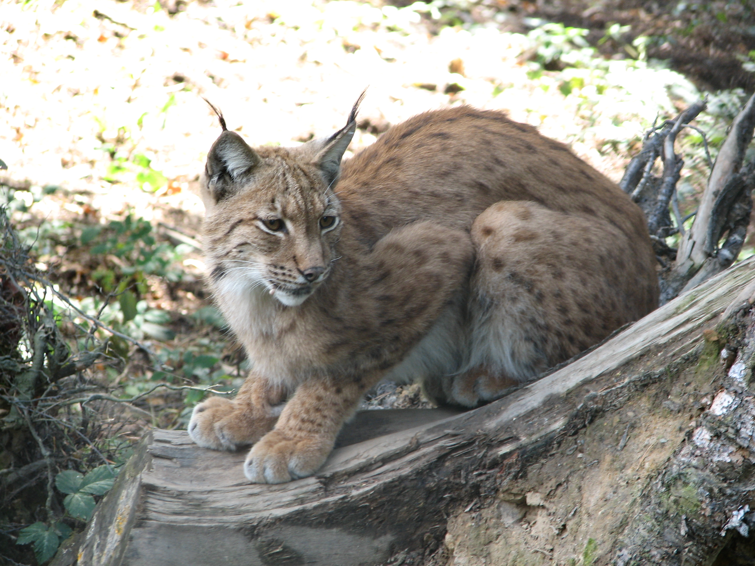 Lynx lynx (Eurasian Lynx) in ZOO Olomouc, Czech Republic